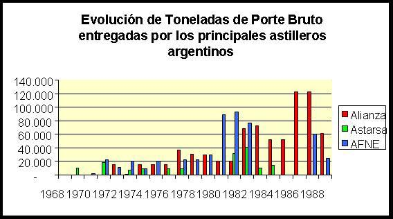 graph